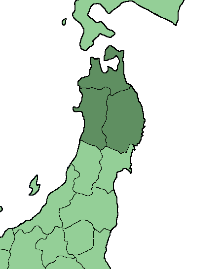 Northern Tokoku